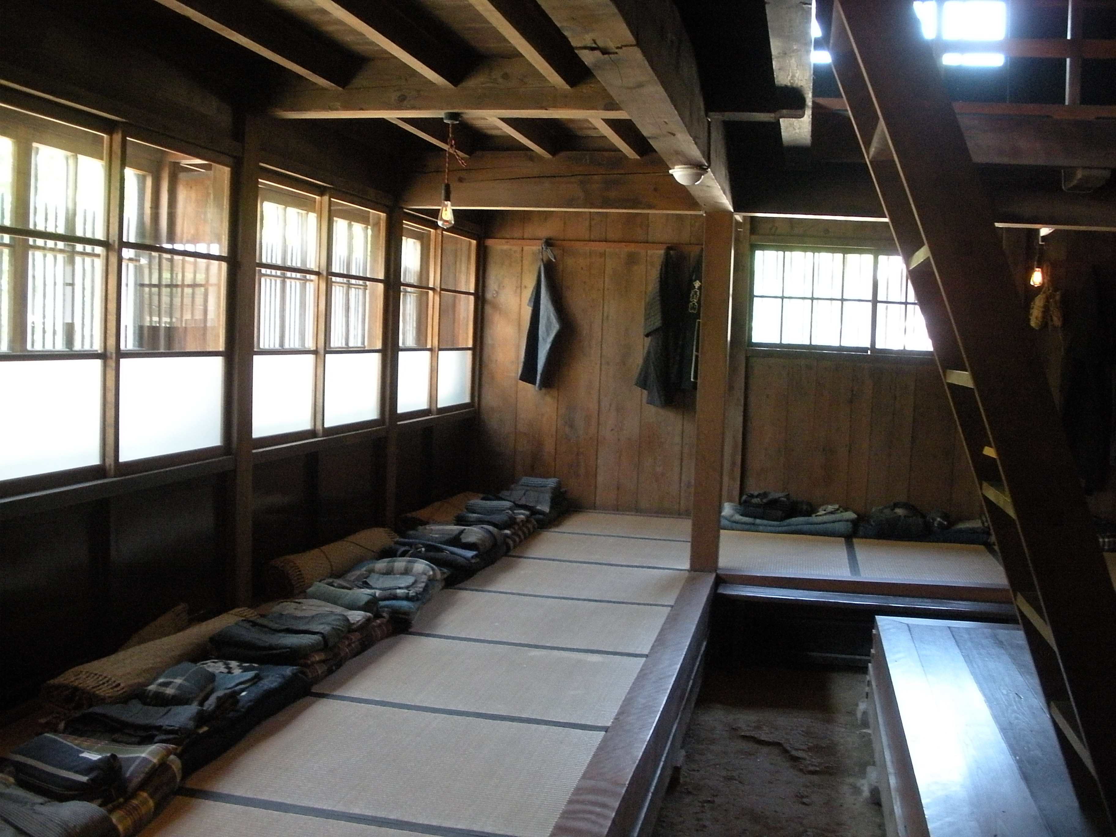 Japanese Pacific herring Fishermans house"Nishin-Goten " Historical Village of Hokkaid. Atsubetsuch-konopporo, Atsubetsu-ku, Sapporo, Japan. Atsubetsu-ku, Sapporo